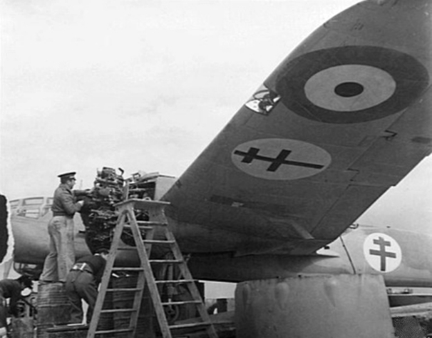 Free French ground crew preparing a Bristol Mercury XV radial engine on the wing of a Bristol Blenheim Mk.IV bomber at an airfield in the Western Desert, North Africa.